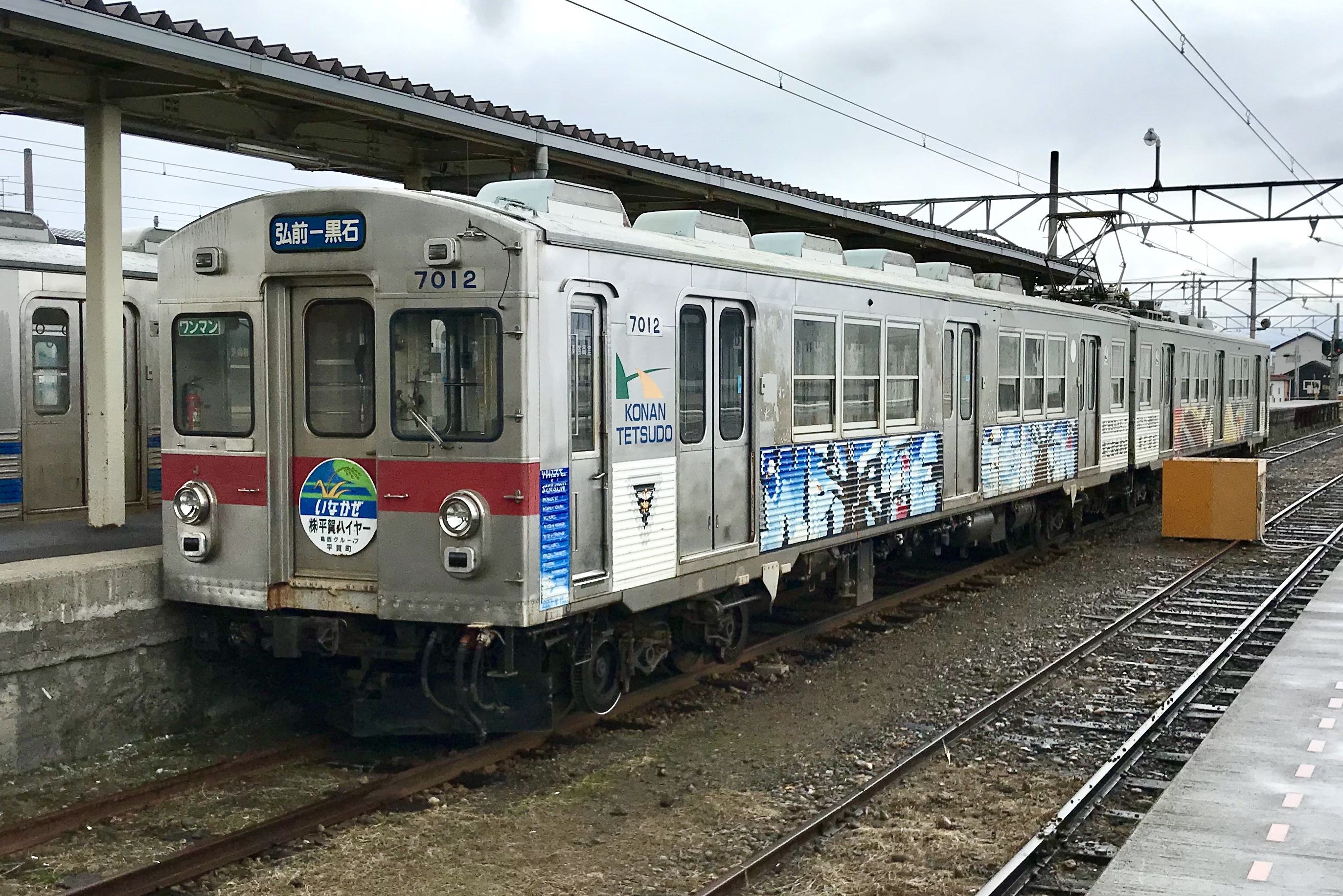 A Konan Railway 7000-series train number "7012" at Kuroishi Station bound for Hirosaki.